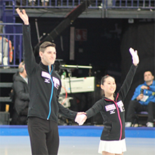 Sumire Suto and Francis Boudreau-Audet in 2017